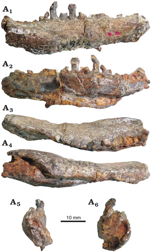 Thyreophoran dinosaur Bienosaurus lufengensis Dong, 2001 (IVPPV15311, holotype), from the Hettangian–Sinemurian (Lower Jurassic),Lower Lufeng Formation of Yunnan, China; partial right dentary in lateral(A1), medial (A2), dorsal (A3), ventral (A4), anterior (A5), and posterior(A6) views